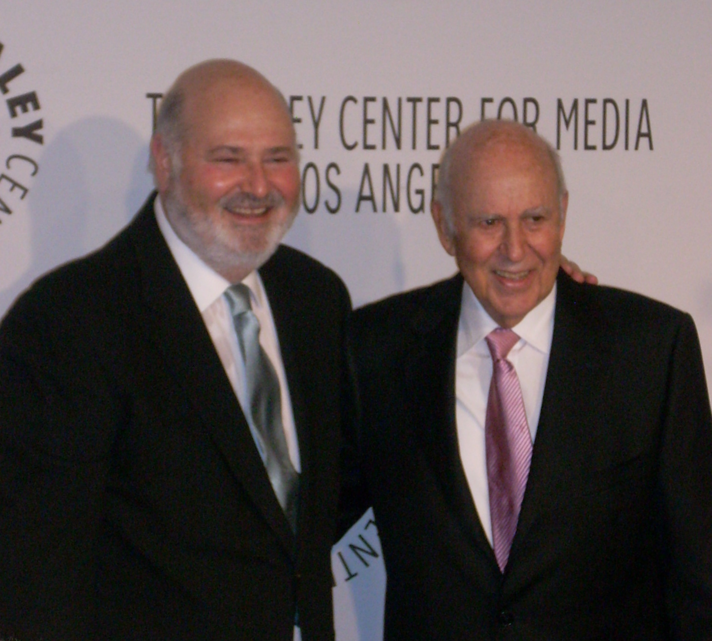 Paley Center for Media Gala Honoring Showtime Networks - Century Plaza Hotel, Los Angeles - Dec. 11, 2008